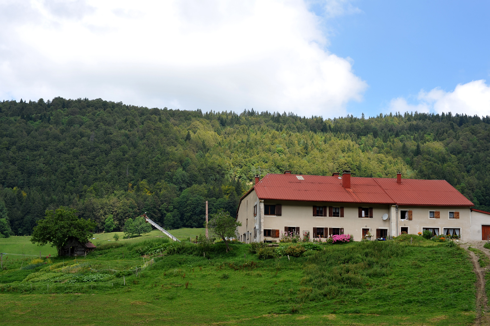 The farm «La petite Bachaudie», Combe de Mijoux; Jura, France. Domicile of Denis and Alice Poncet, view to northwest. The door of the small storehouse left of the farmhouse used the Poncet's to signal to Michel Hollard if the area is free of enemies.